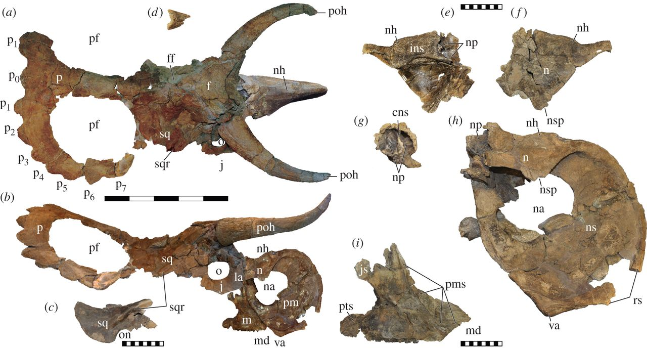 Nasutoceratops titusi, n. gen et. sp., holotype skull (UMNH VP 16800) in dorsal (a) and lateral (b) views. Scale bar represents 50 cm and the naris and maxilla are photoreversed in (b). Referred squamosal (UMNH VP 19469) in lateral view (c). Note lateral squamosal ridge in (b) and (c). Epijugal of the holotype (UMNH VP 16800) in anterior view (d). Nasal of referred skull (UMNH VP 19466) in medial (e) and lateral (f) view. Nasal (g,h), premaxilla (h), and maxilla (i) of the holotype in caudal (g) and lateral (i) views (photoreversed). Scale bars for (c–i) represent 10 cm. Abbreviations (autapomorphies noted with an asterisk (*)): cns, caudal nasal septum*; f, frontal; ff, frontoparietal fontanelle; ins, internarial suture; j, jugal; js, jugal suture; la, lacrimal; m, maxilla; md, maxillary diastema; n, nasal; na, naris; nh, nasal horncore; np, nasal pneumatopore*; ns, narial septum; nsp, narial spine; o, orbit; on, otic notch; p, parietal; p0–p7, epiparietals; pf, parietal fenestra; epiparietals; pm, premaxilla; pms, premaxillary suture*; poh, postorbital horncore*; pts, pterygoid-epipterygoid suture; rs, rostral suture; sq, squamosal; sqr, lateral squamosal ridge; va, ventral angle.